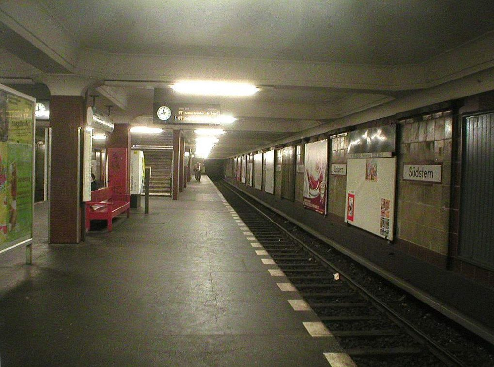 The Berlin U-Bahn station Südstern, line U7